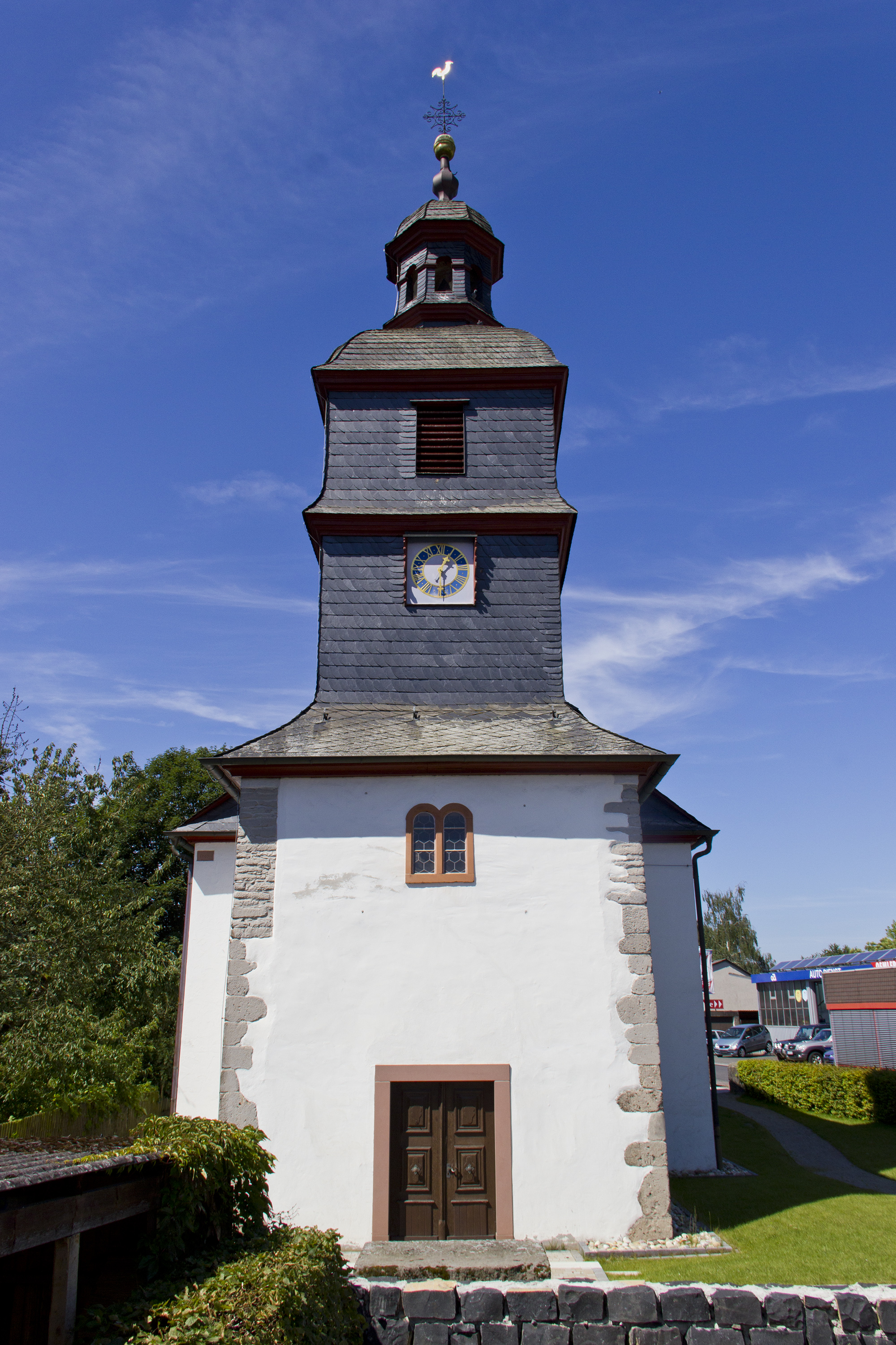 Evangelical Church Wetterfeld (Laubach).